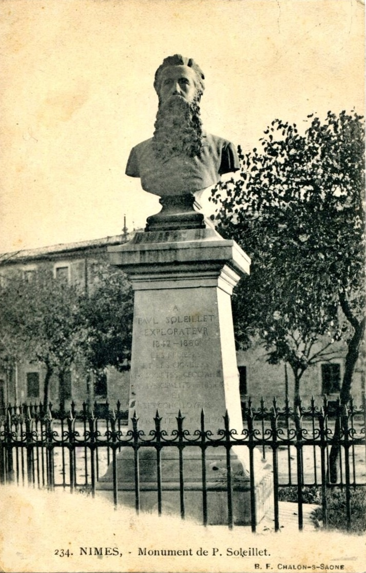 Bronze bust of French explorer Paul Soleillet at Nîmes, his native town. The bust was to be melted in 1942. Postcard issued between 1898 and 1902.